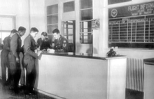 USAF Photo of Orly Air Base MATS terminal.